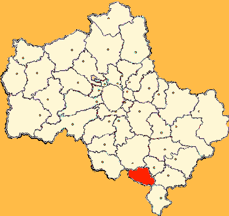 Moscow Region map by Al Silonov